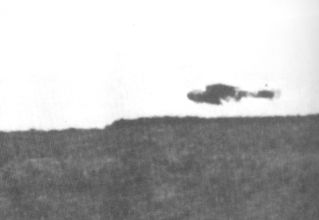 Mizuno Jinryu glider during takeoff. Jinryu 'Lord Dragon' is the only glider plane produced by Mizuno.